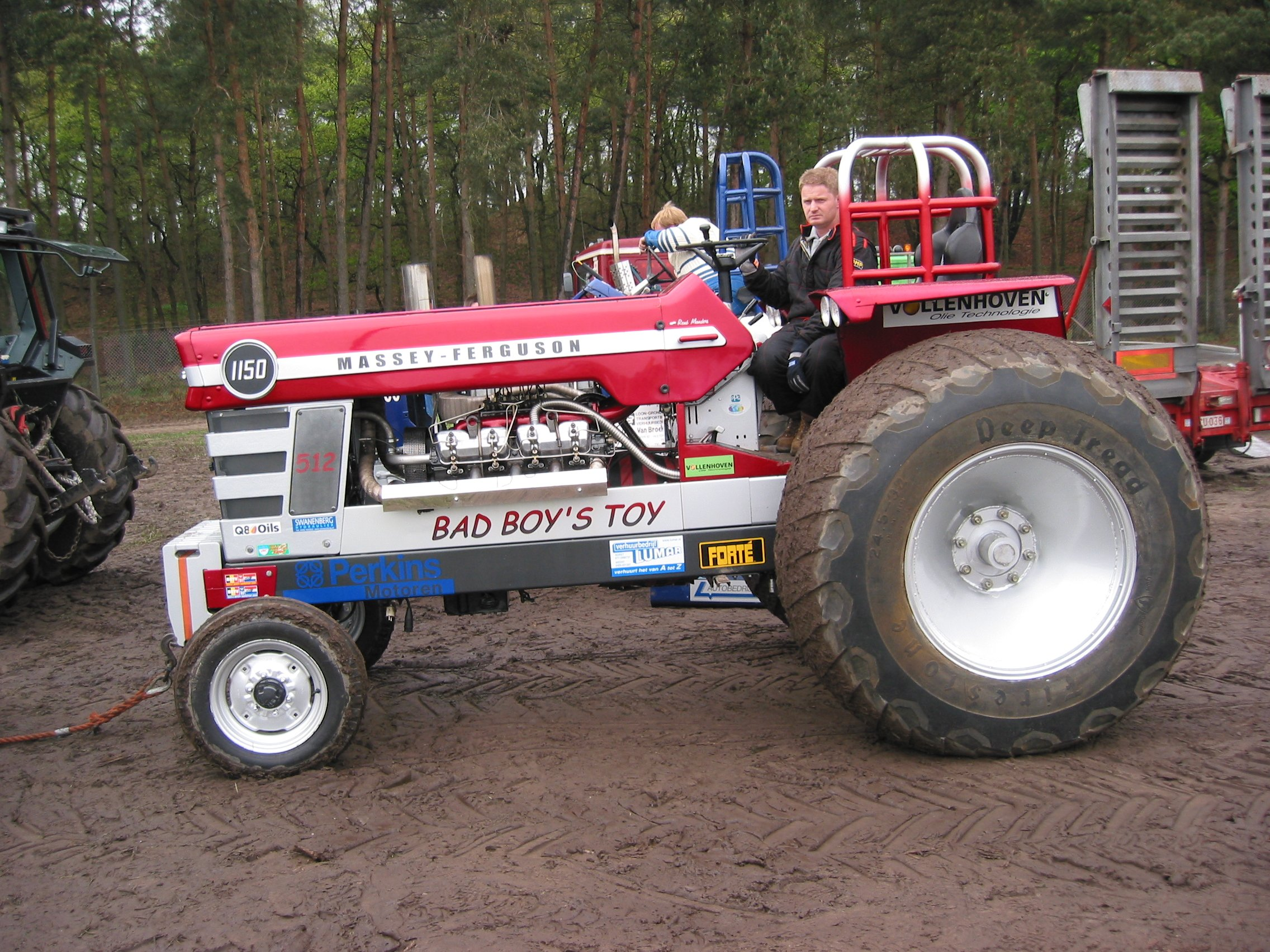 Tractor bij tractorpulling